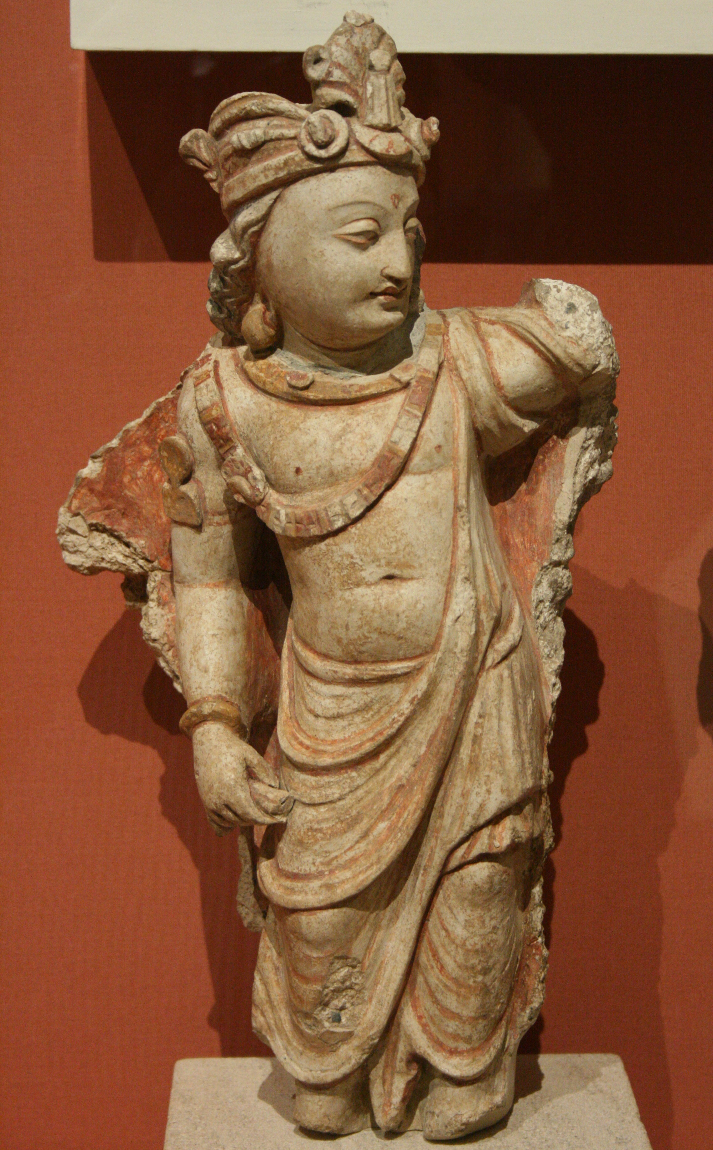 Stucco attendant figure, Khyber Region. Art of gandhara (4th-5th century AD). Victoria and Albert Museum (London)